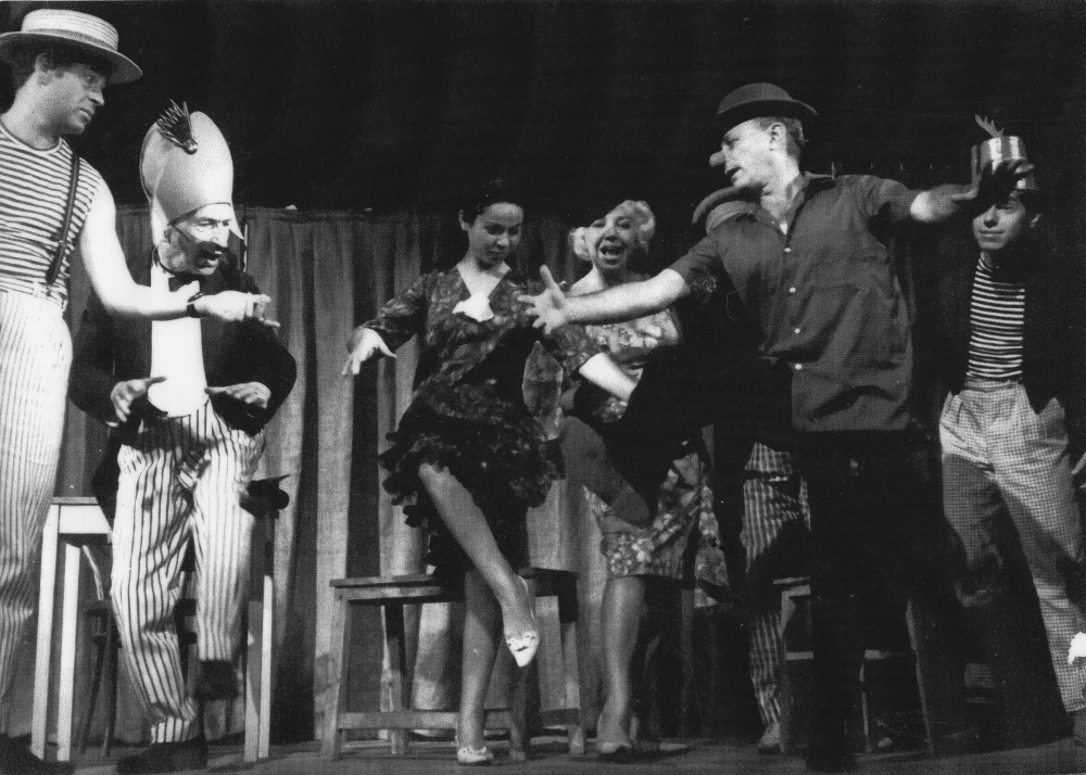 This picture was given to me by the family of Shmuel Bunuim to use in Wikipedia as Public Domain